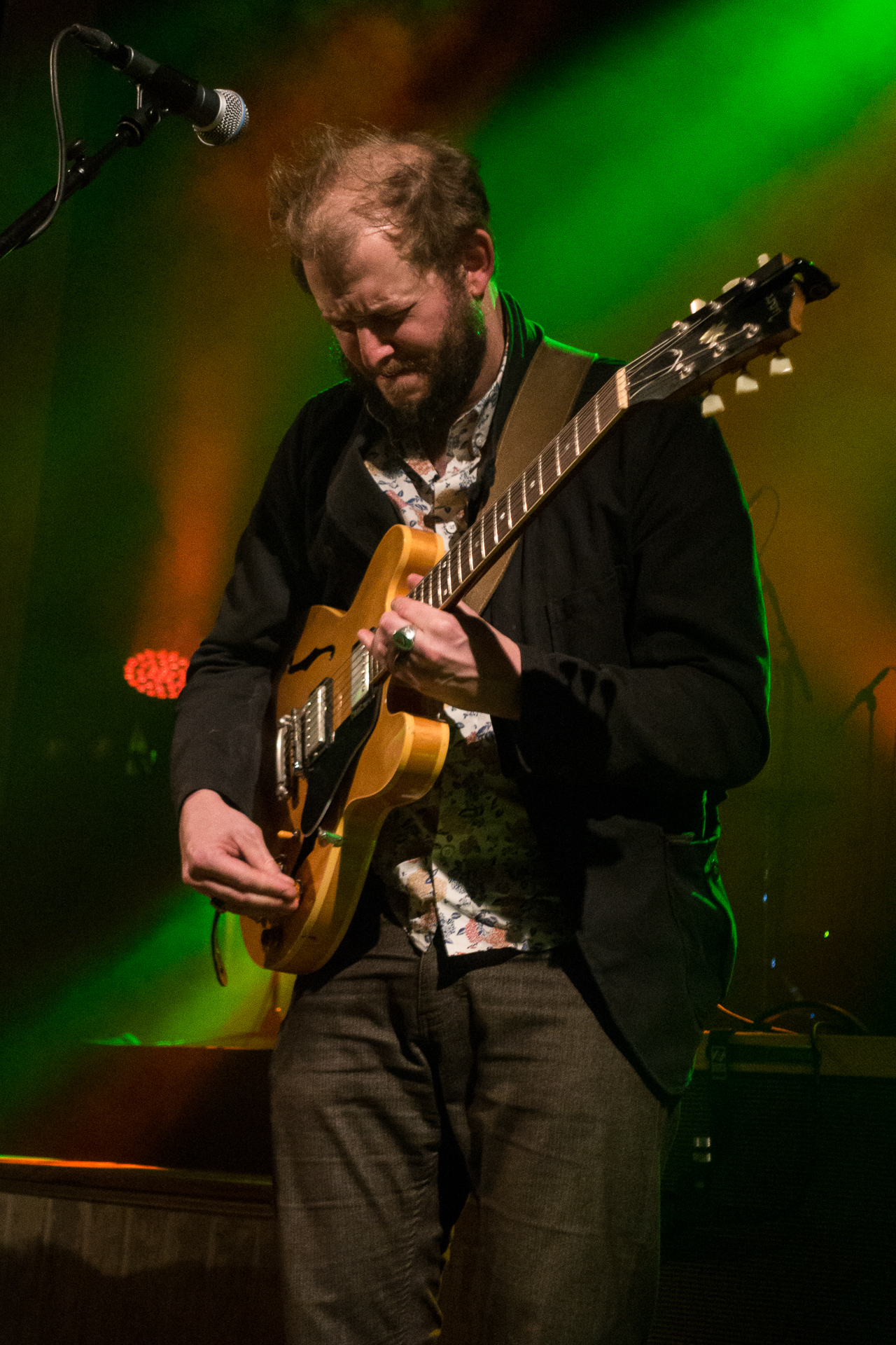 The Staves with Bon Iver at Wilton Music Hall